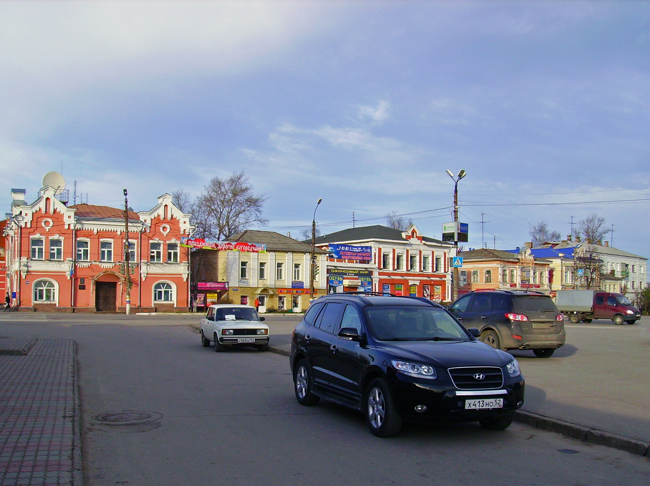 Bogorodsk. Red Square